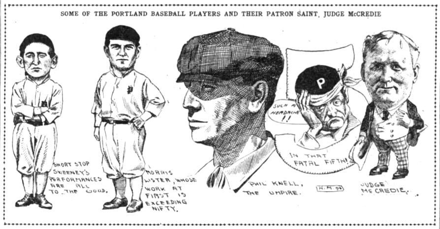 A drawing of the Portland Beavers baseball team from the May 5, 1906 edition of The Oregonian in 1906.